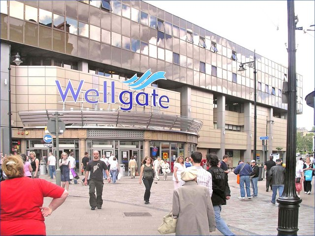 Wellgate Shopping Centre A typical shopping day at the Wellgate Centre